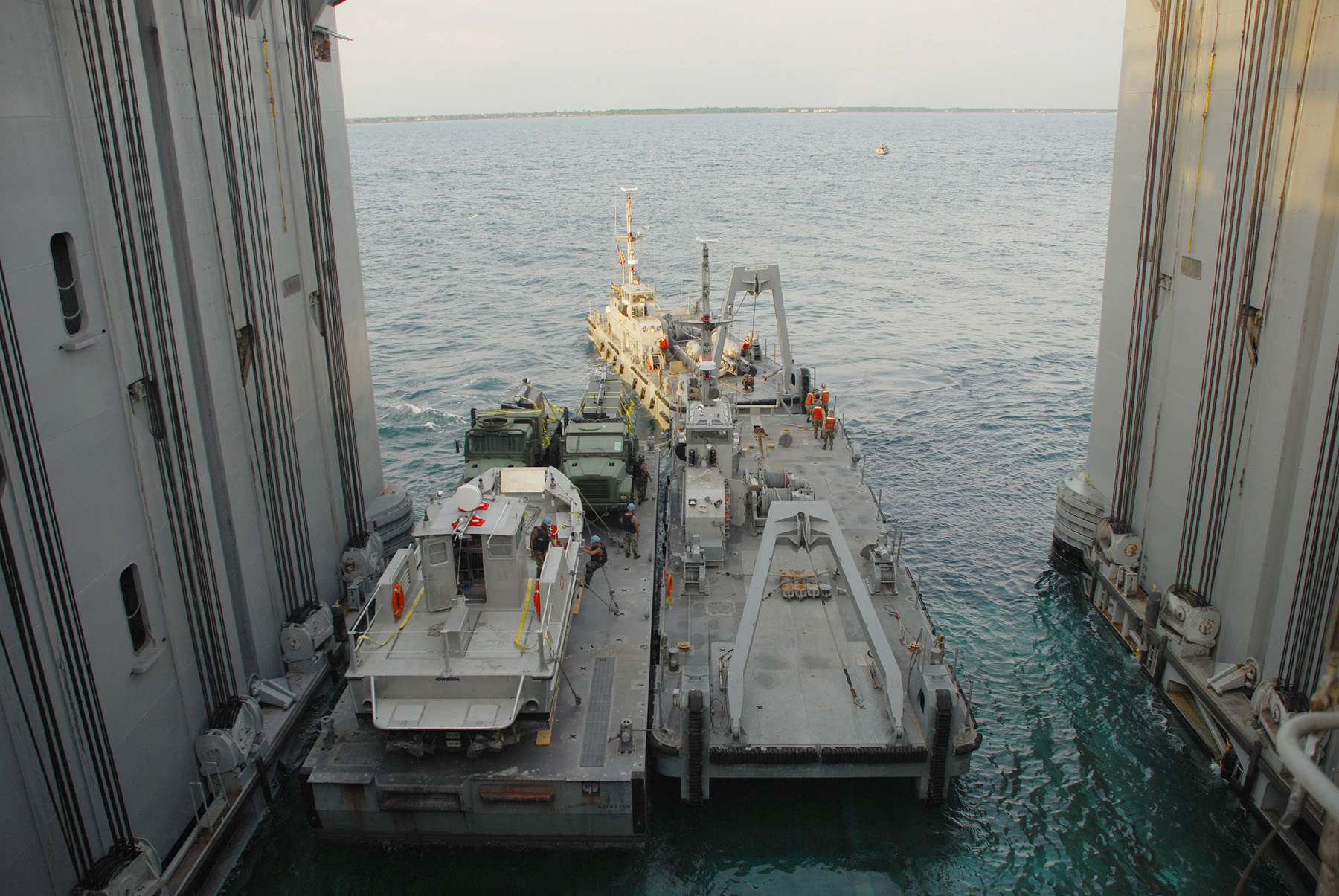 Puerto Quetzal, Guatemala (Jan. 27,2007) - Seabees assigned to Amphibious Construction Battalion One offload the Improved Navy Lighter age System (INLS) from the Military Sealift Command (MSC) heavy lift ship SS Cape Mohican (T-AKR 5065) for Humanitarian Support over the Shore (HSOTS) 2007. HSOTS is a simulated disaster relief assistance response that involves transporting equipment from two engineer task forces. Approximately 1,300 U.S. servicemen and women, representing the Navy, Army, National Guard, and Reserve forces are participating in HSOTS 2007. U.S. Navy photo by Yeoman 3rd Class Jessica L. Bidwell (RELEASED)